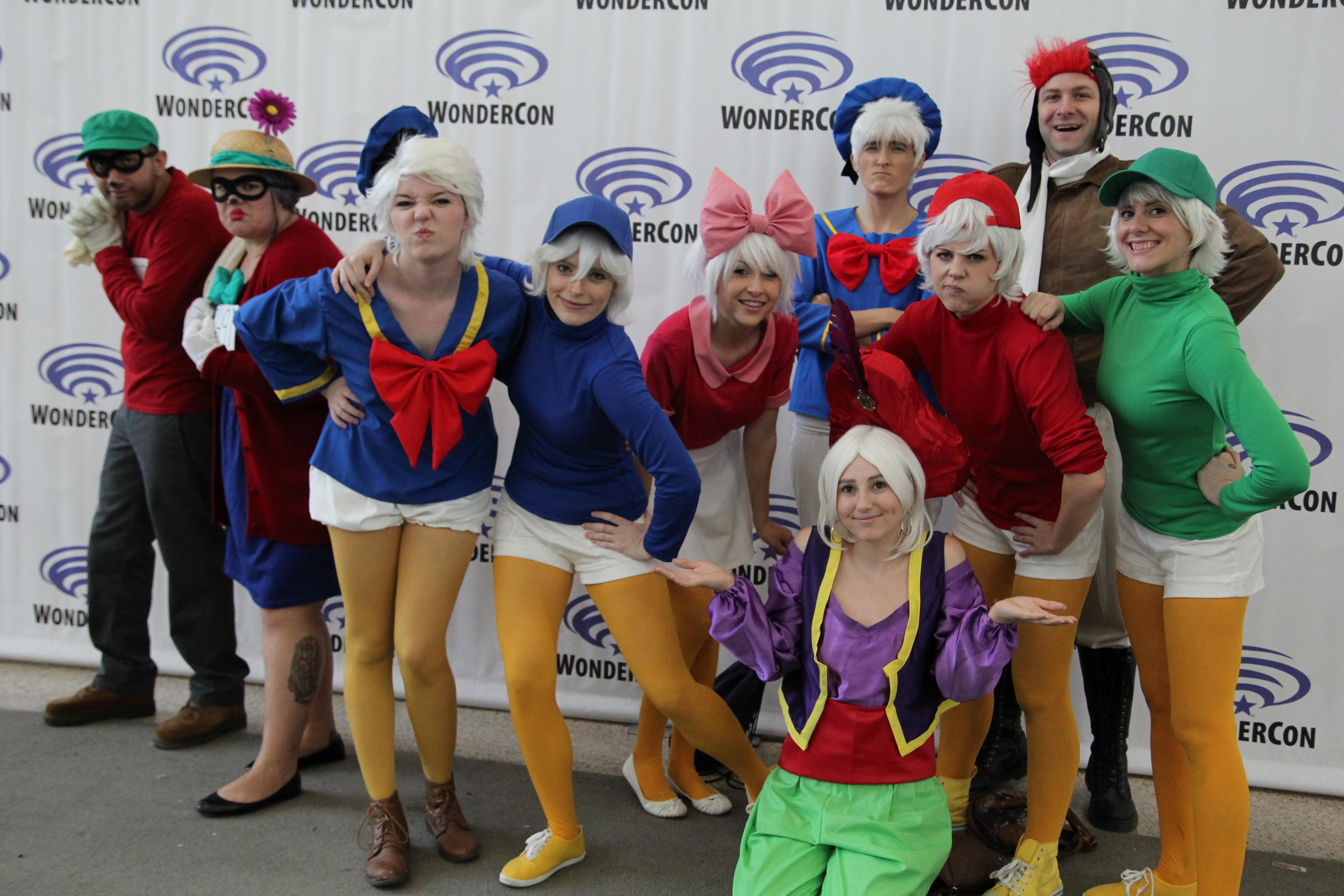 DuckTales group cosplay at WonderCon 2016. From left to right: Gabriel Gonzalez as a Beagle Boy, Meeranda Soriano as Ma Beagle, ? as Donald Duck, Mouse's Cosplay (Elyse) as Dewey, Shiya Wind as Webbigail Vanderquack, Vash Fanatic as Donald Duck, little0lily as Gene the Genie, Courtoon as Huey, AmeZaRain as Louie, and Ben Kliewer as Launchpad McQuack.